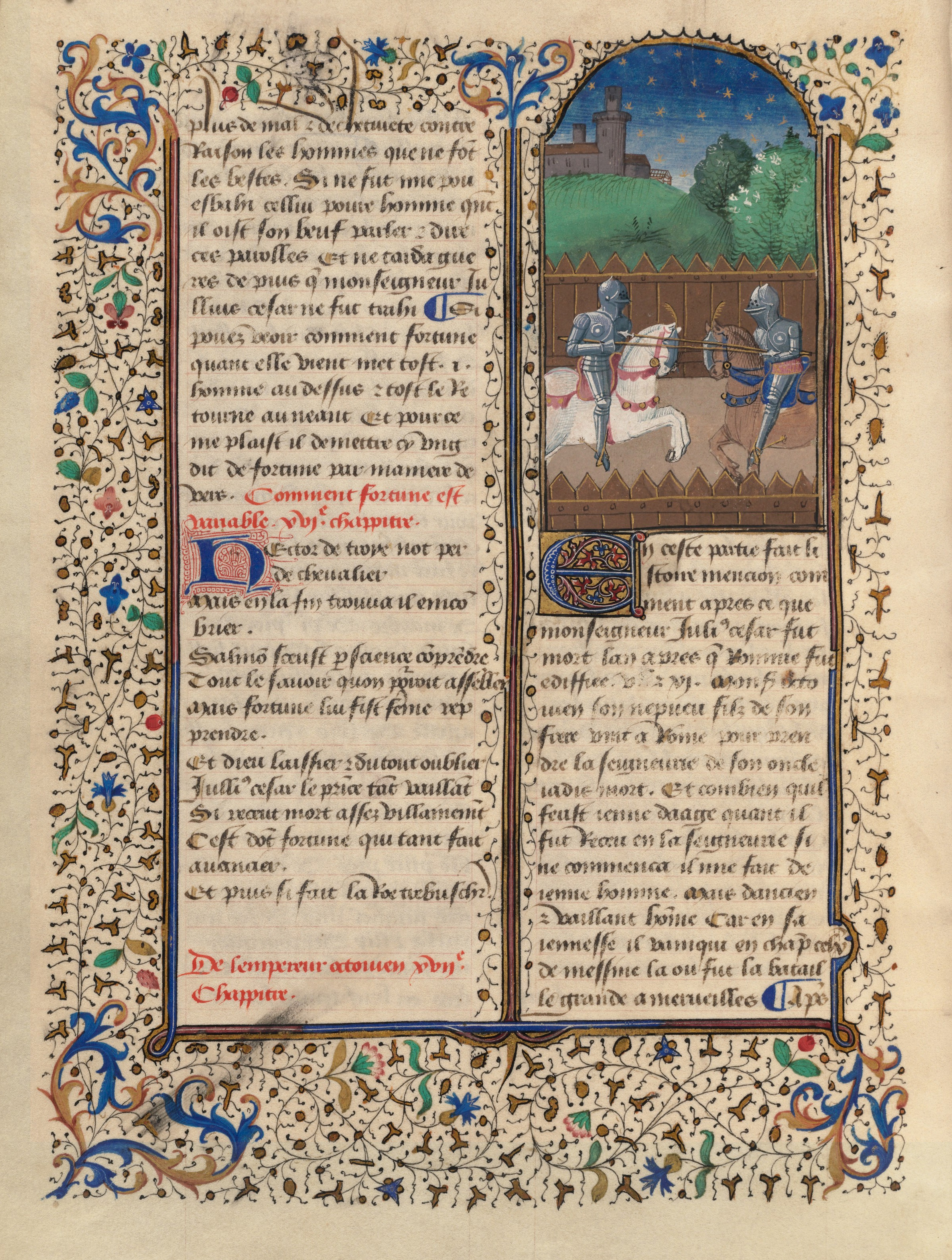 Manuscript: L’arbre des batailles [ca. 1400-1450], originally by Honoré Bonet (fl. 1378-1398). MS Typ 61, Houghton Library, Harvard University